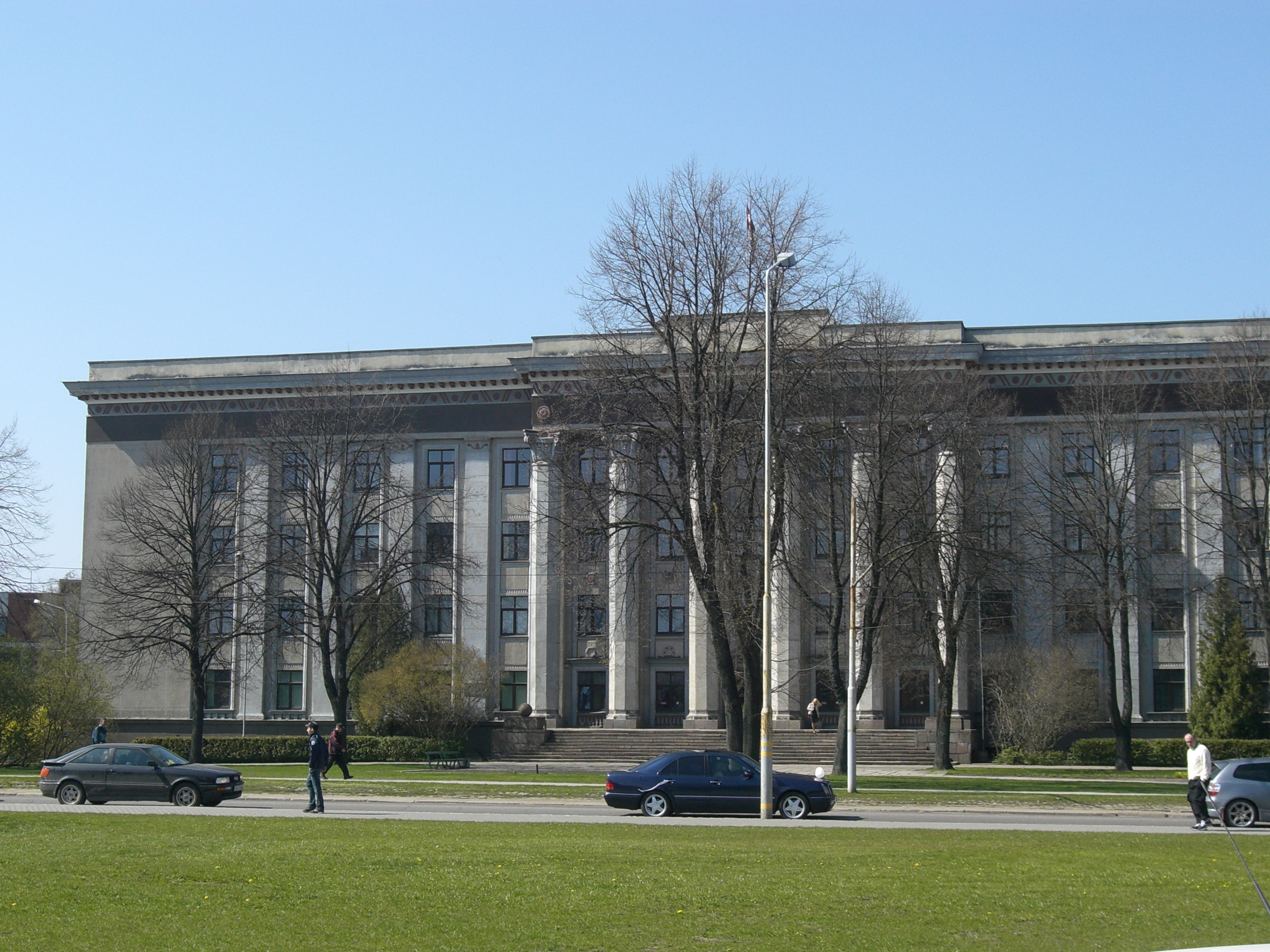 Liepāja town, Latvia. University